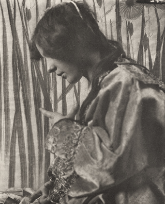 Angela, in Camera Work 1905